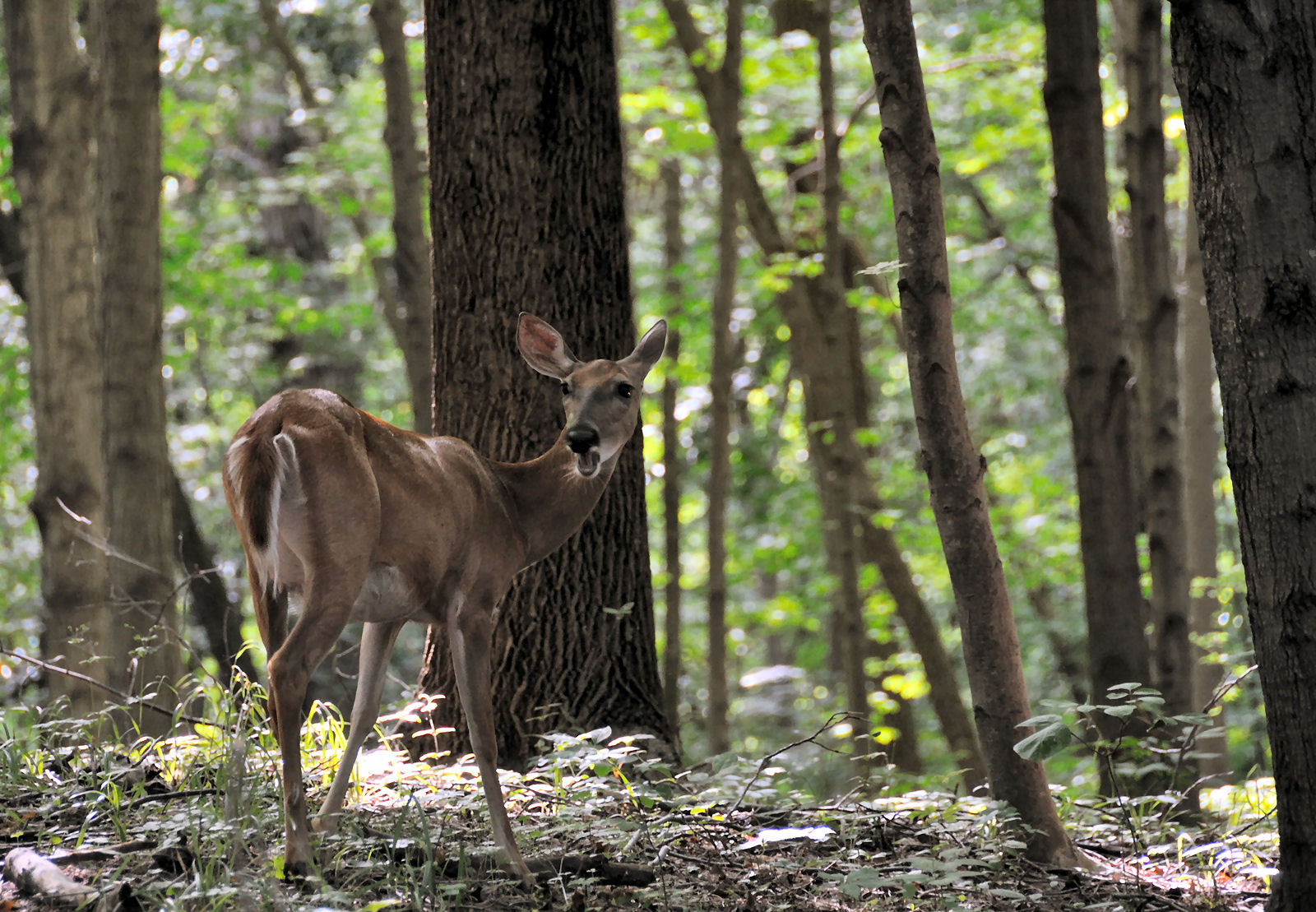 At the entry of Eagle Creek Park. Bambi Scared for a funny moment here is the commercial You tube Worked with CaptureNX to increase d-light, reduce noise etc